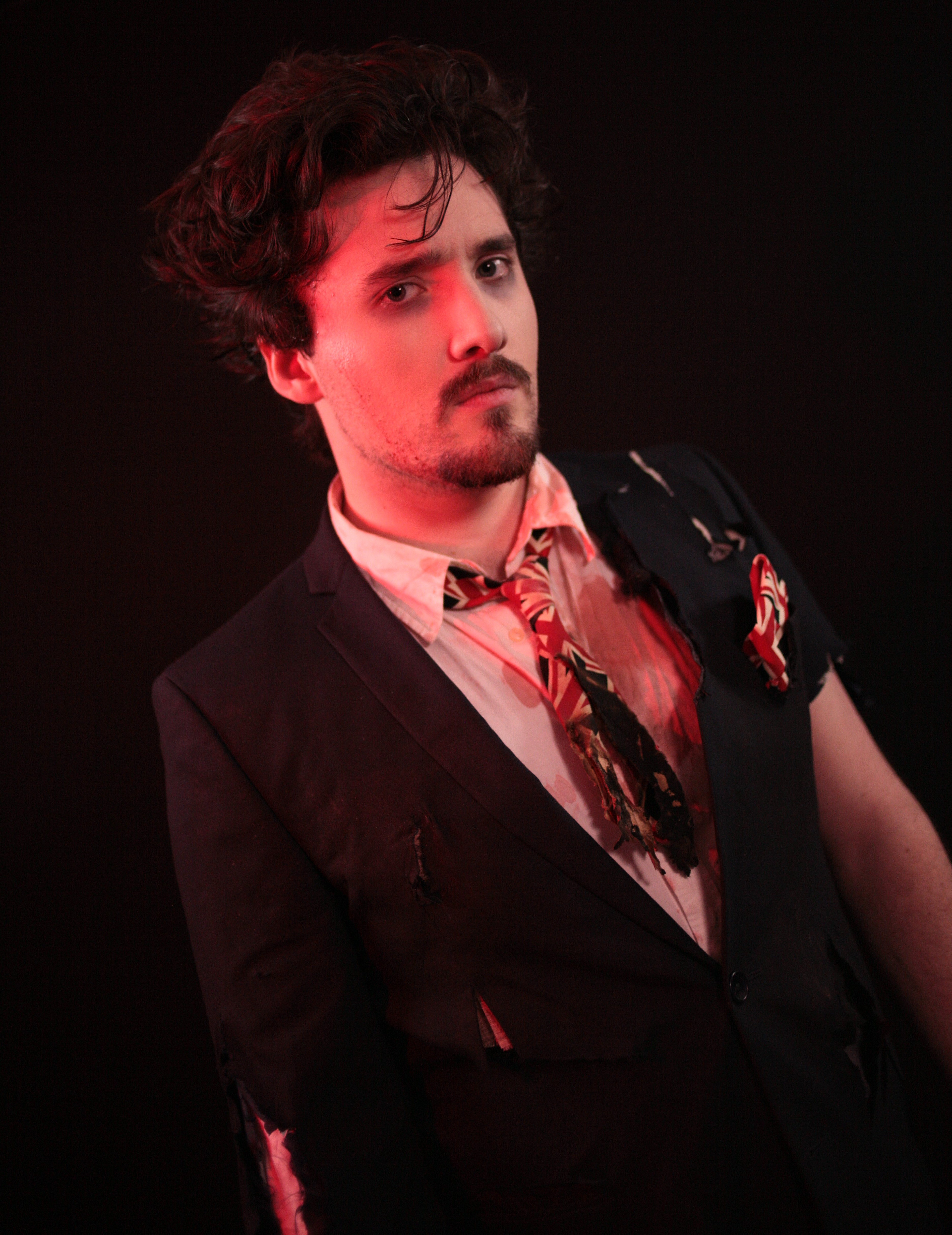 Cropped image of Oliver Thorn of Philosophy Tube